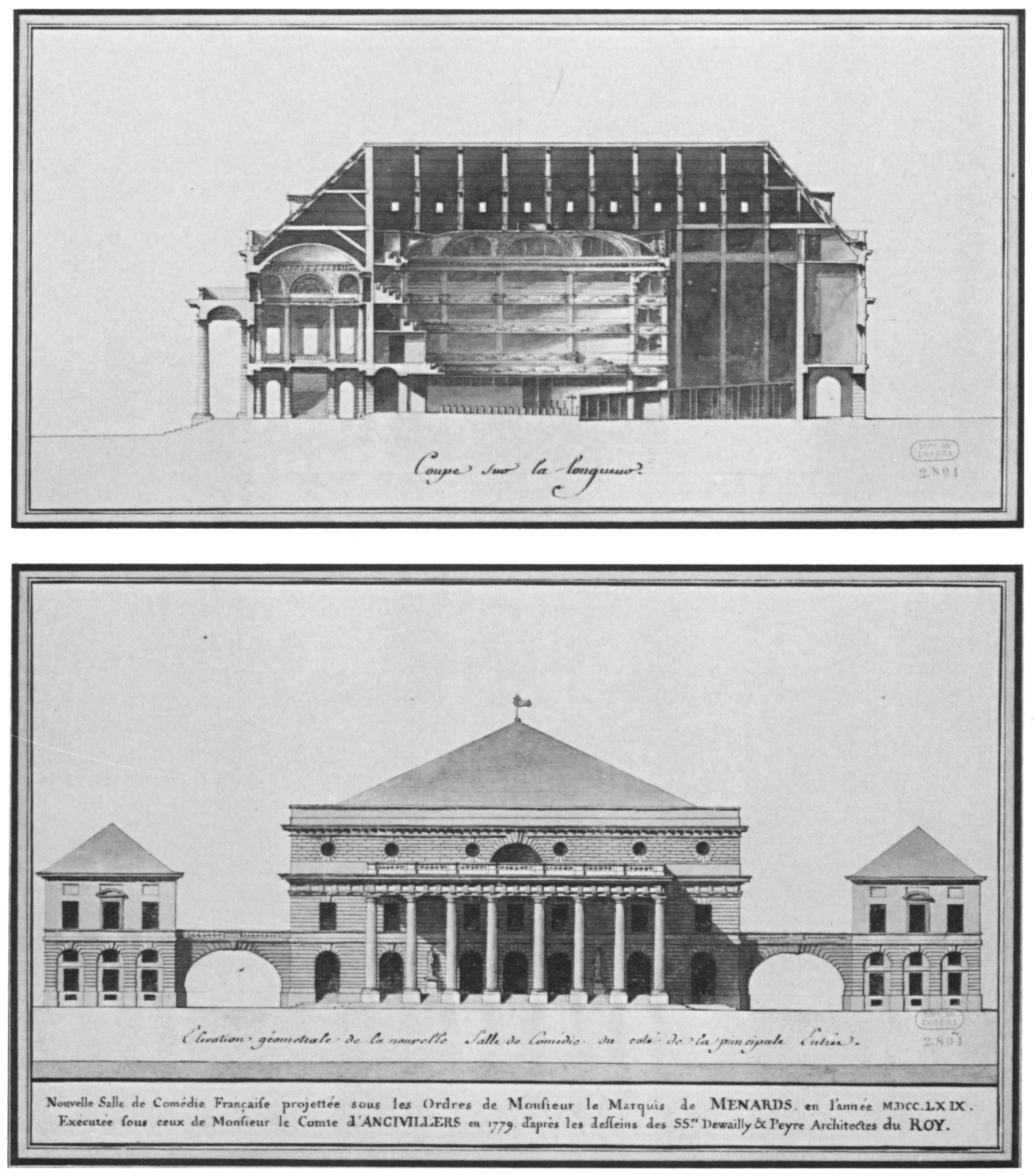 Comédie-Française (Odéon), section and elevation for the final project of 1778, drawing by Charles de Wailly and Marie-Joseph Peyre